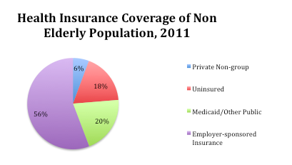 Health Insurance Coverage of the Non-Elderly Population, 2011. Chart made from data collected by the Kaiser Family Foundation